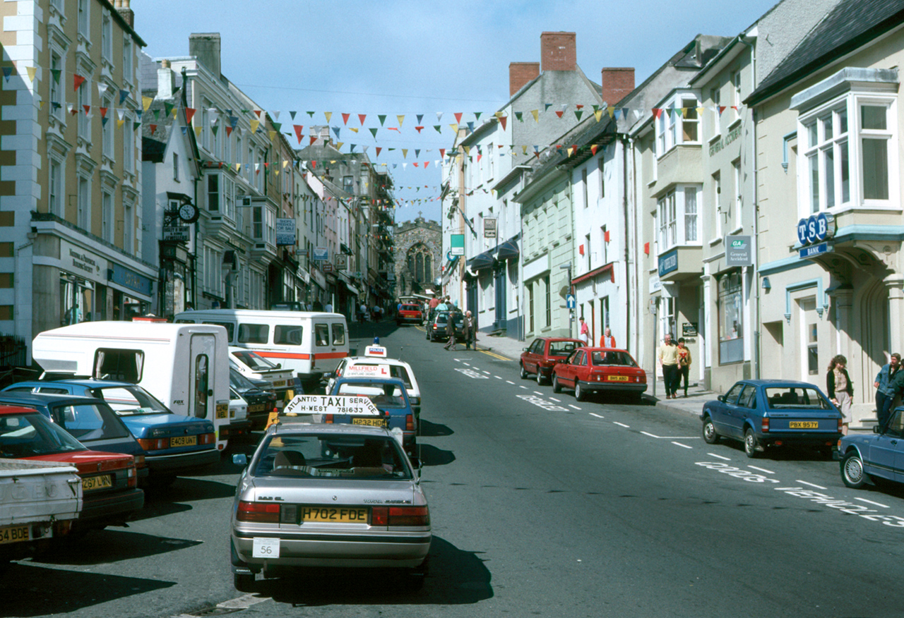 High street of Haverfordwest, located near Milford Haven in Pembrokeshire, Wales